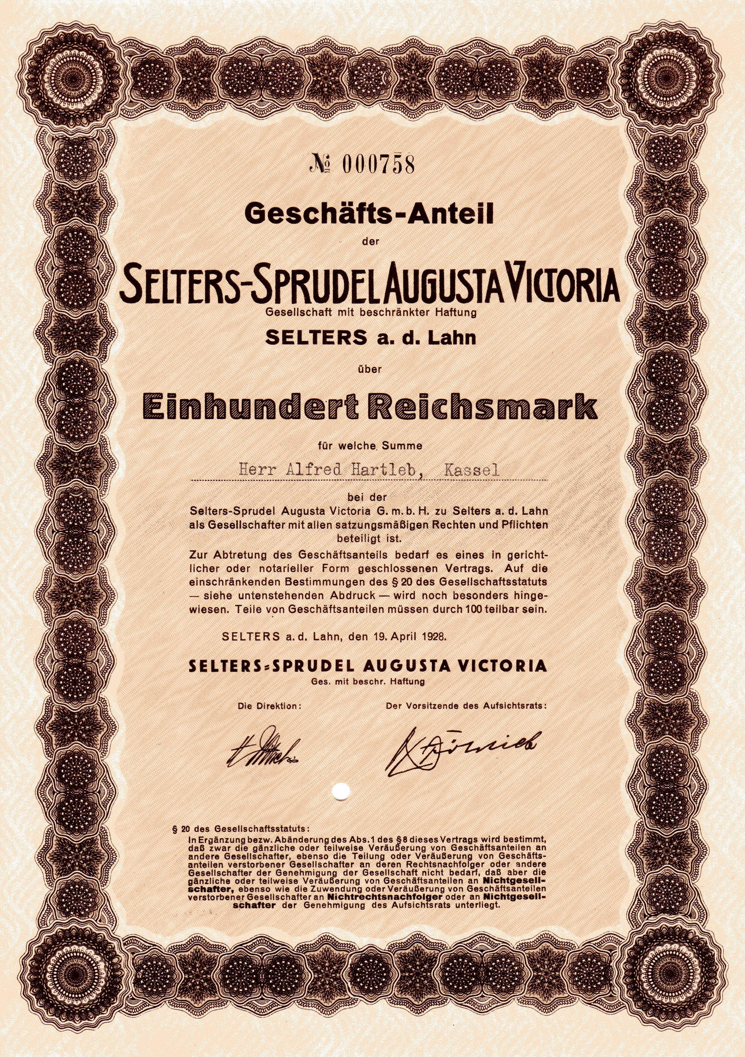 Share in the company Selters-Sprudel Augusta Victoria GmbH, issued 19. April 1928